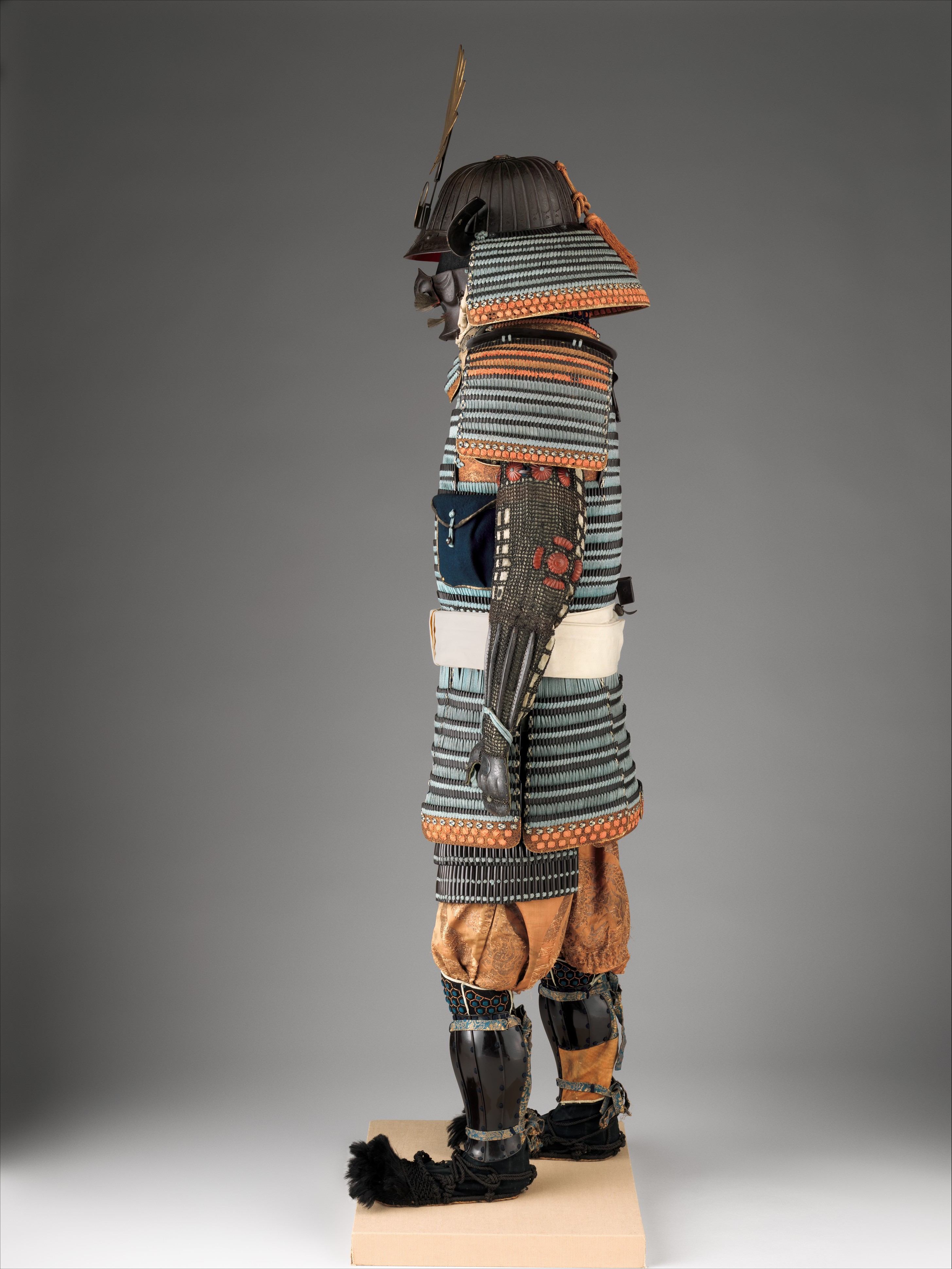 Japanese; Armor (Gusoku); Armor for Man